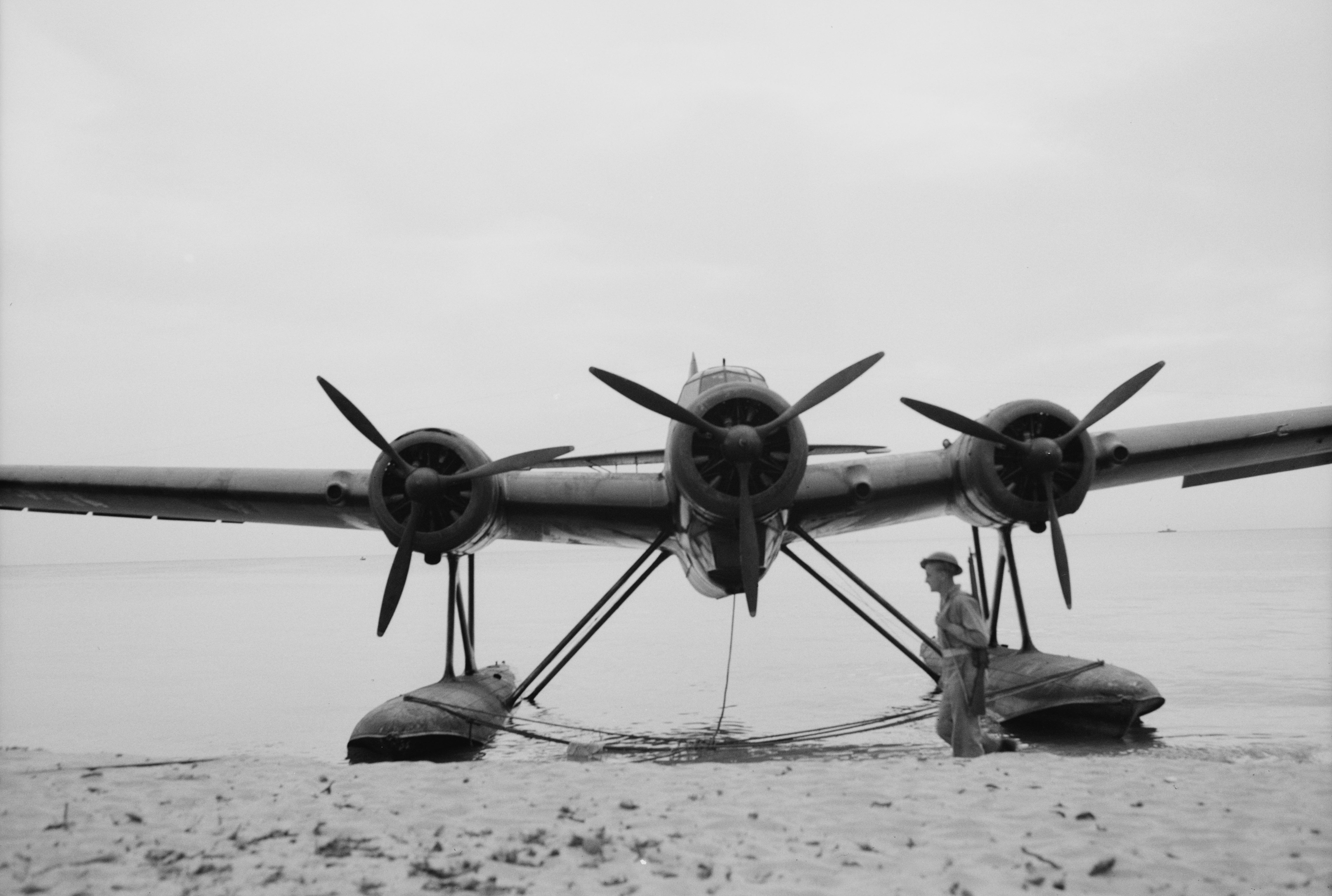 An Italian CANT Z.506 Airone seaplane on a Sicilian beach, September 1943.